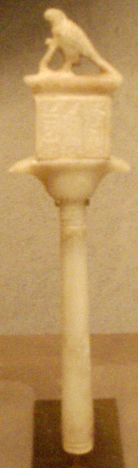 An Egyptian alabaster sistrum (a rattle) inscribed with the names of the pharaoh Teti-(first of 6th dynasty), circa 2323-2291 B.C. (Now:-(Dec 2008), Reign: 2345-2333 BC.)